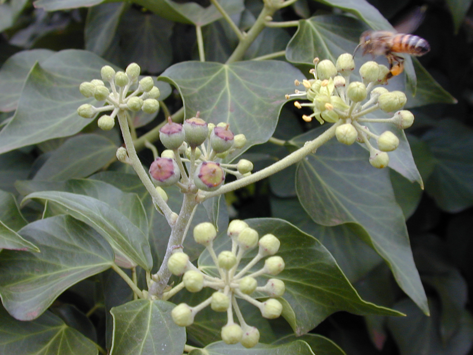 Hedera helix (flowers & young fruit). Location: Maui, Kula